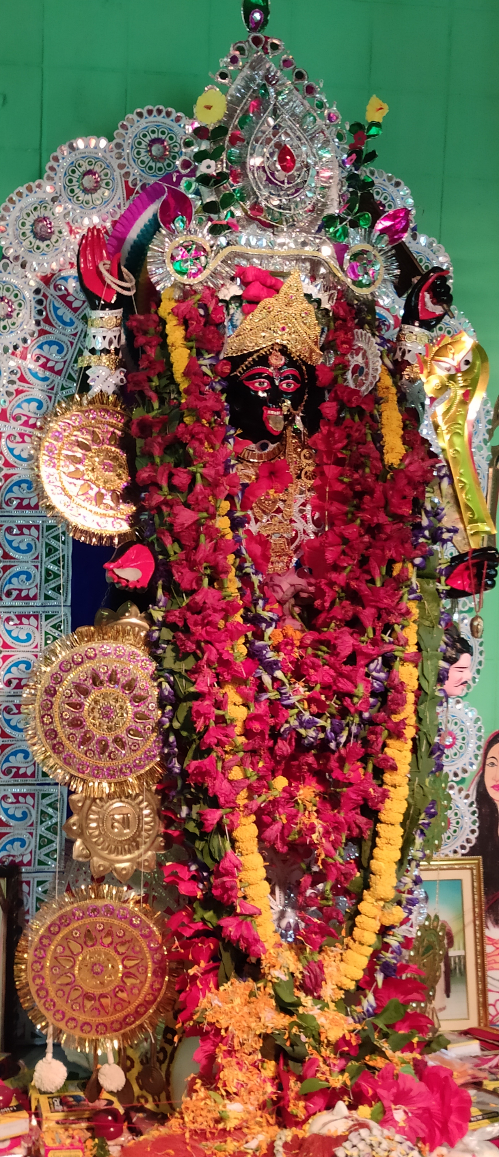 Kali Puja at Roy Chowdhury House at Barasat